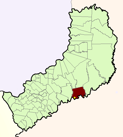 A map of Colonia Aurora's municipio in Misiones province, Argentina. The big point is Colonia Aurora town, the little one is Colonia Alicia town.